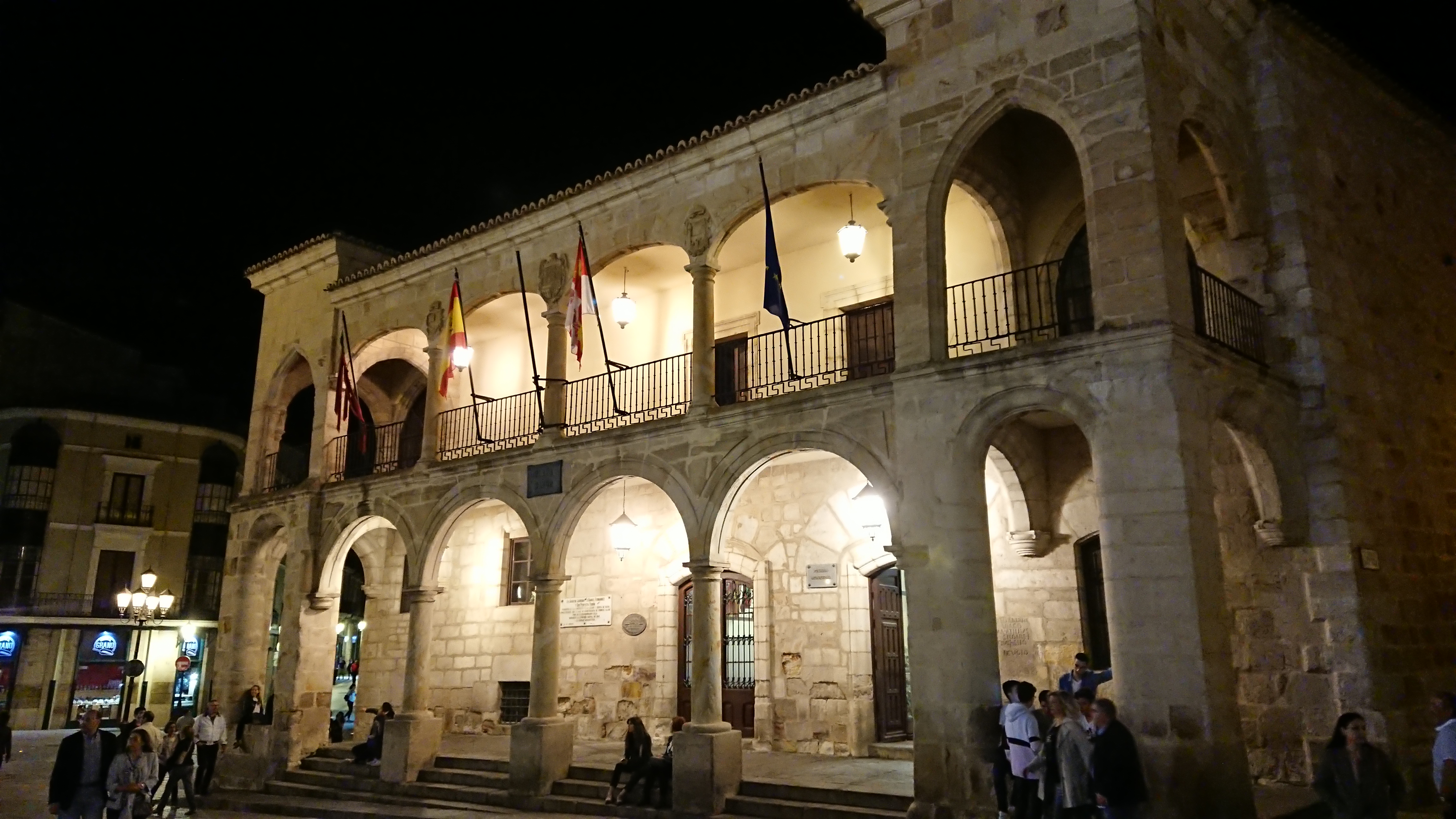 Old city hall, Zamora (Spain)